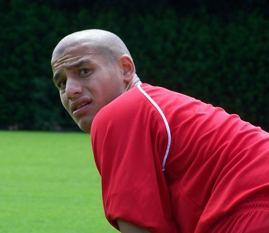 Adlène Guédioura, central midfielder (KV Kortrijk)